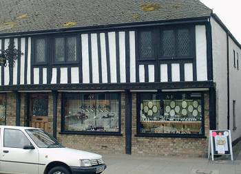 Freeman's Jewellers, 42 High Street, St Neots, Cambridgeshire (formerly Huntingdonshire).The 16th-century timber framing was discovered behind brick facing and restored. I took this photo myself – Chris Jefferies 10:23, 20 Jun 2004 (UTC)